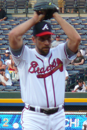 I took this photo on June 5, 2007 Photo personnelle prise le 5 juin 2007